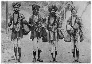 this is a image of khanphata sadhus group